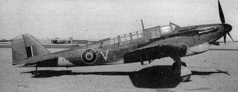 Fairey Fulmar Mk. II carrier-borne fighter and recce (around mid 1941)